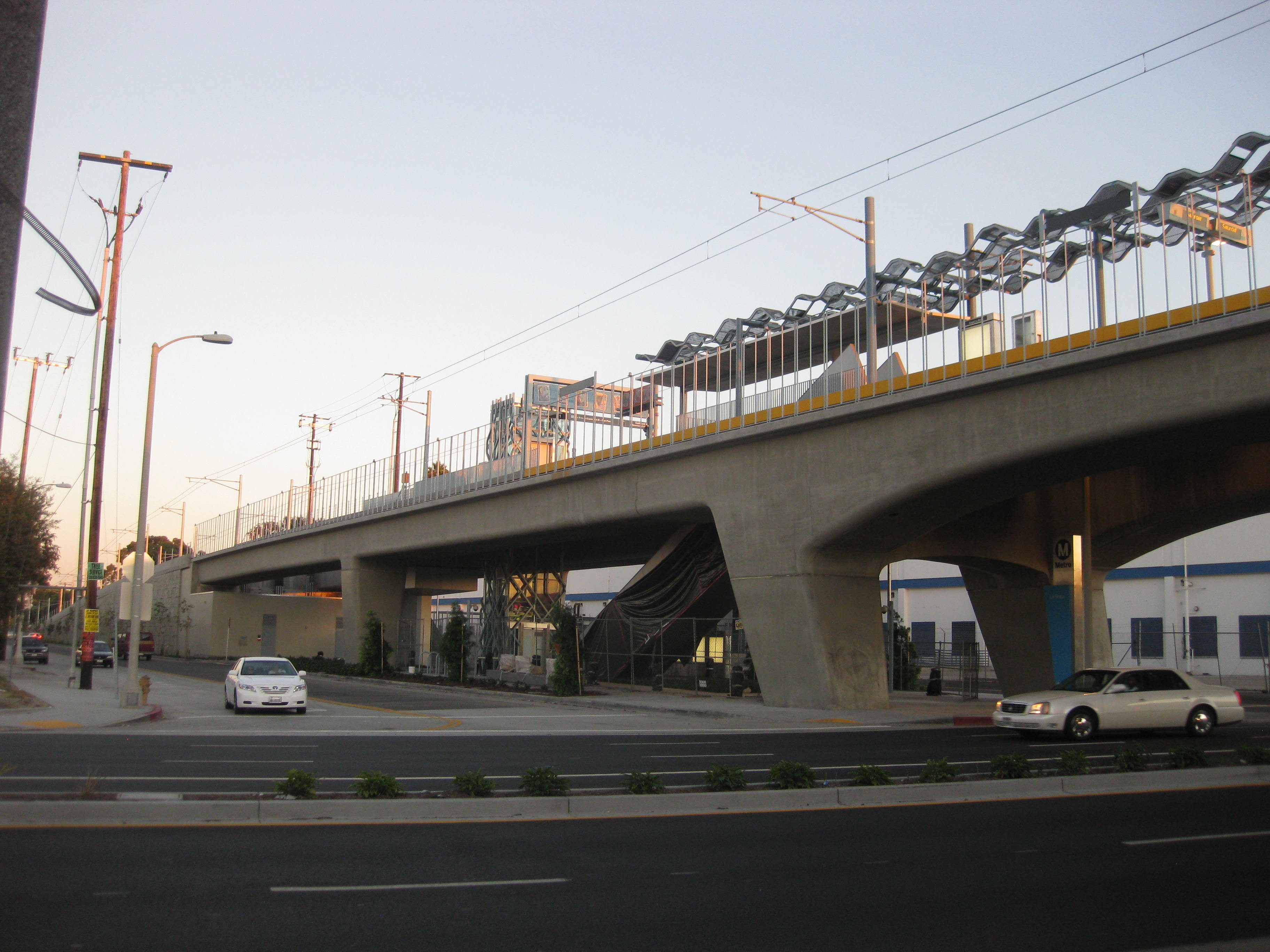 An image of the La Cienega-Jefferson Metro Station on the Expo Line, under construction in Los Angeles, CA.